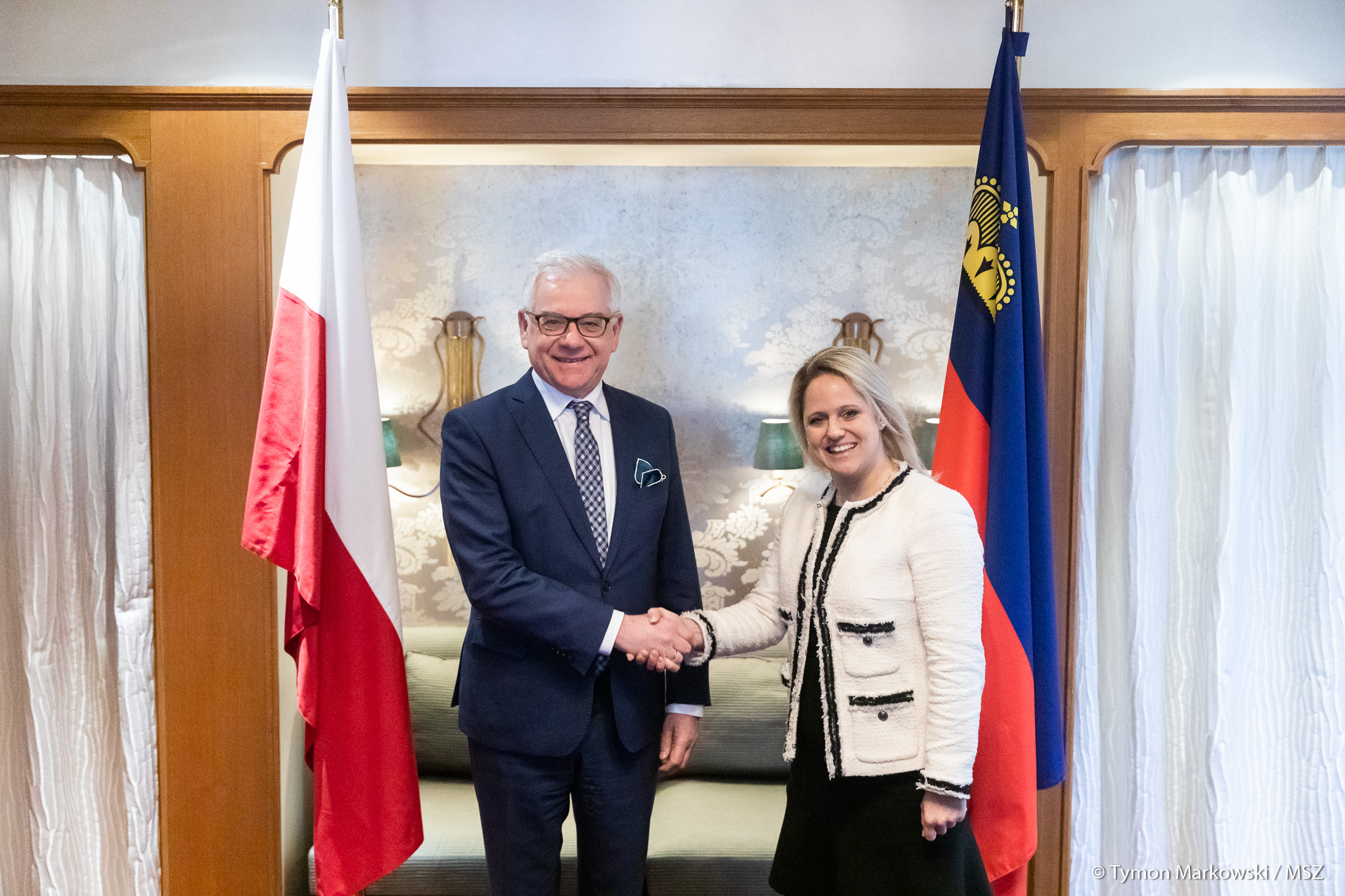 Ministers of Poland and Lichtenstein in Vaduz